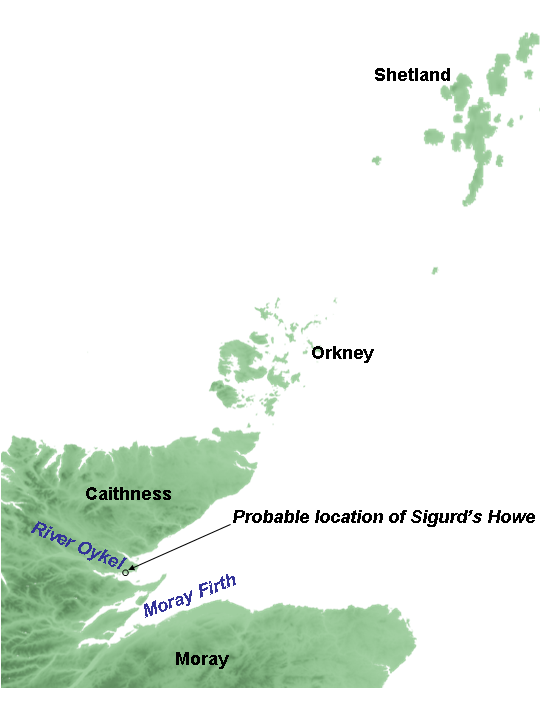 Map of North-eastern Scotland showing Orkney, Shetland, Caithness, Moray, the river Oykel and the probable location of Sigurd Eysteinsson's burial mound